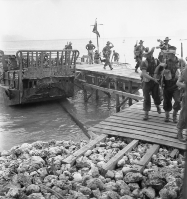 TROOPS OF "D" COMPANY 2/32ND BATTALION COMING ASHORE AT JESSELTON WHARF.